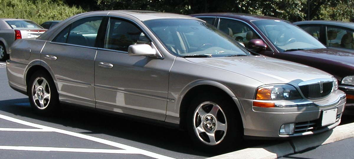 2000-2002 Lincoln LS V8 photographed in USA.